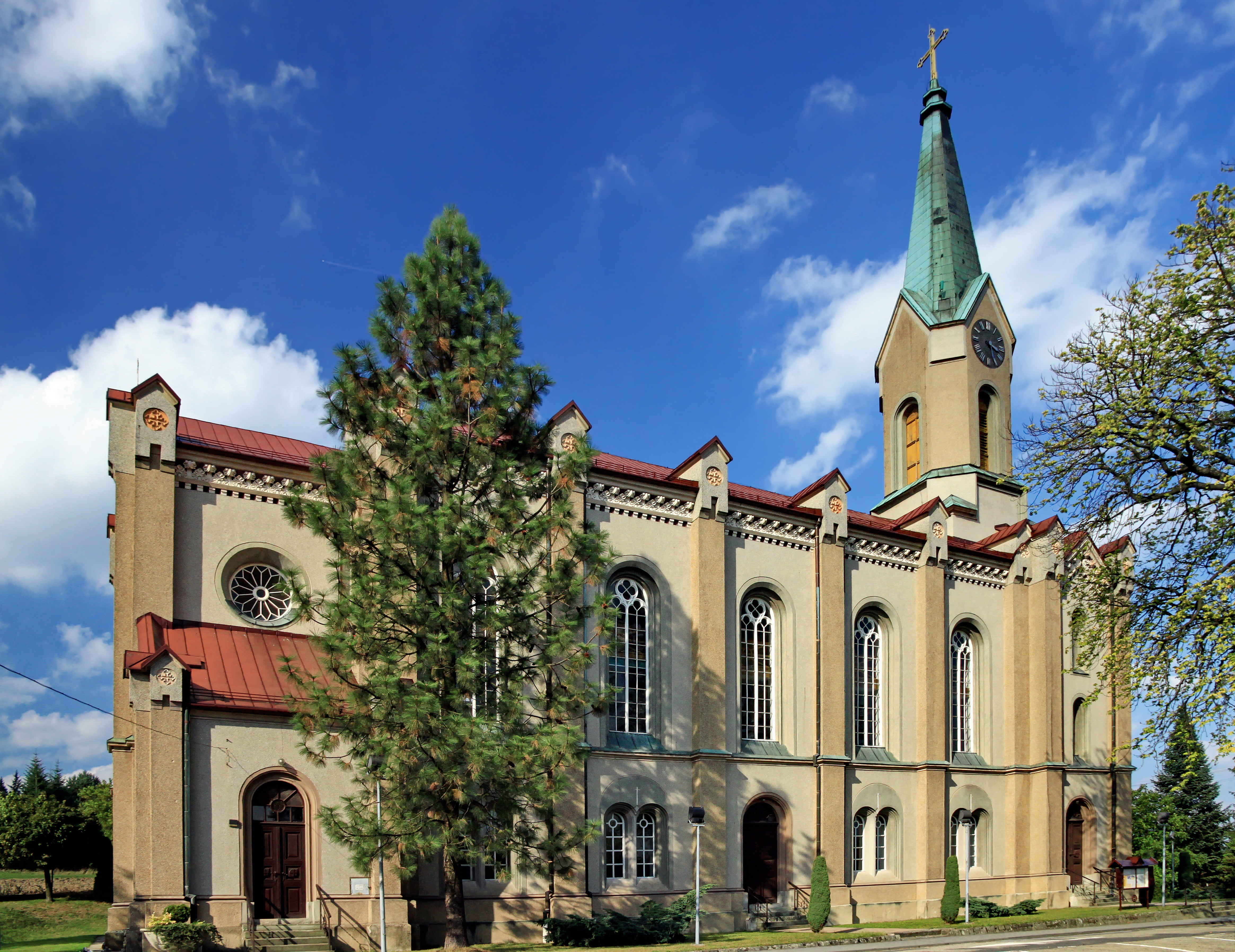 Holy Trinity lutheran church. Skoczów, Silesian Voivodeship, Poland.